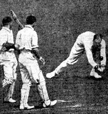 Percy Fender fielding the ball against Lancashire in 1922